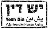 Yesh Din logo. Yesh Din (in Hebrew language “there is law”) is an Israel human rights NGO.